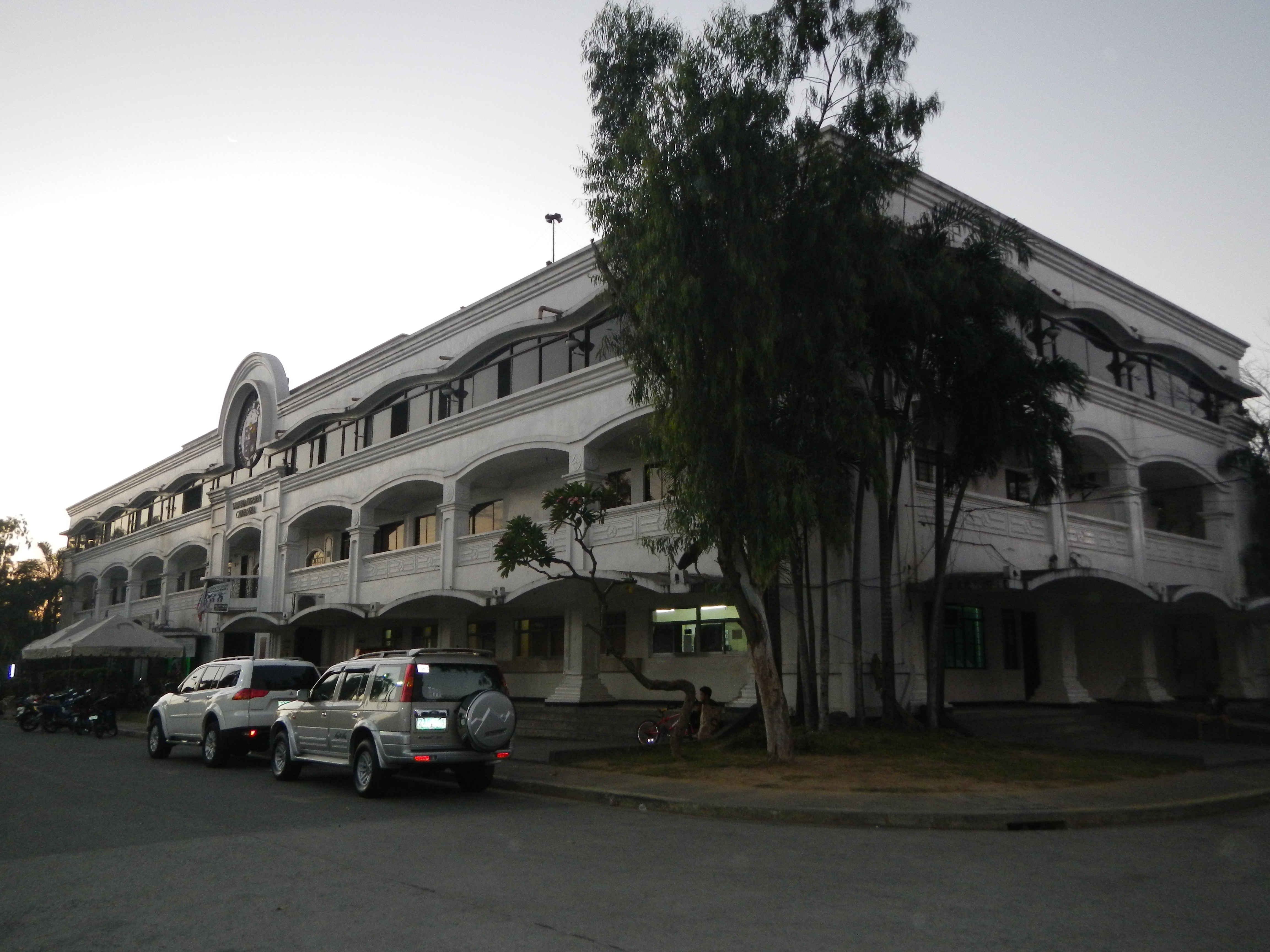 Cainta, Rizal[1](Filipino: Bayan ng Cainta) is a first-class urban municipality in the province of Rizal, Philippines. It is one of the oldest (originally founded on August 15, 1571), and is the town with the second smallest land area of 26.81 square kilometres (10.35 sq mi) next to Angono with 26.22 square kilometres (10.12 sq mi).